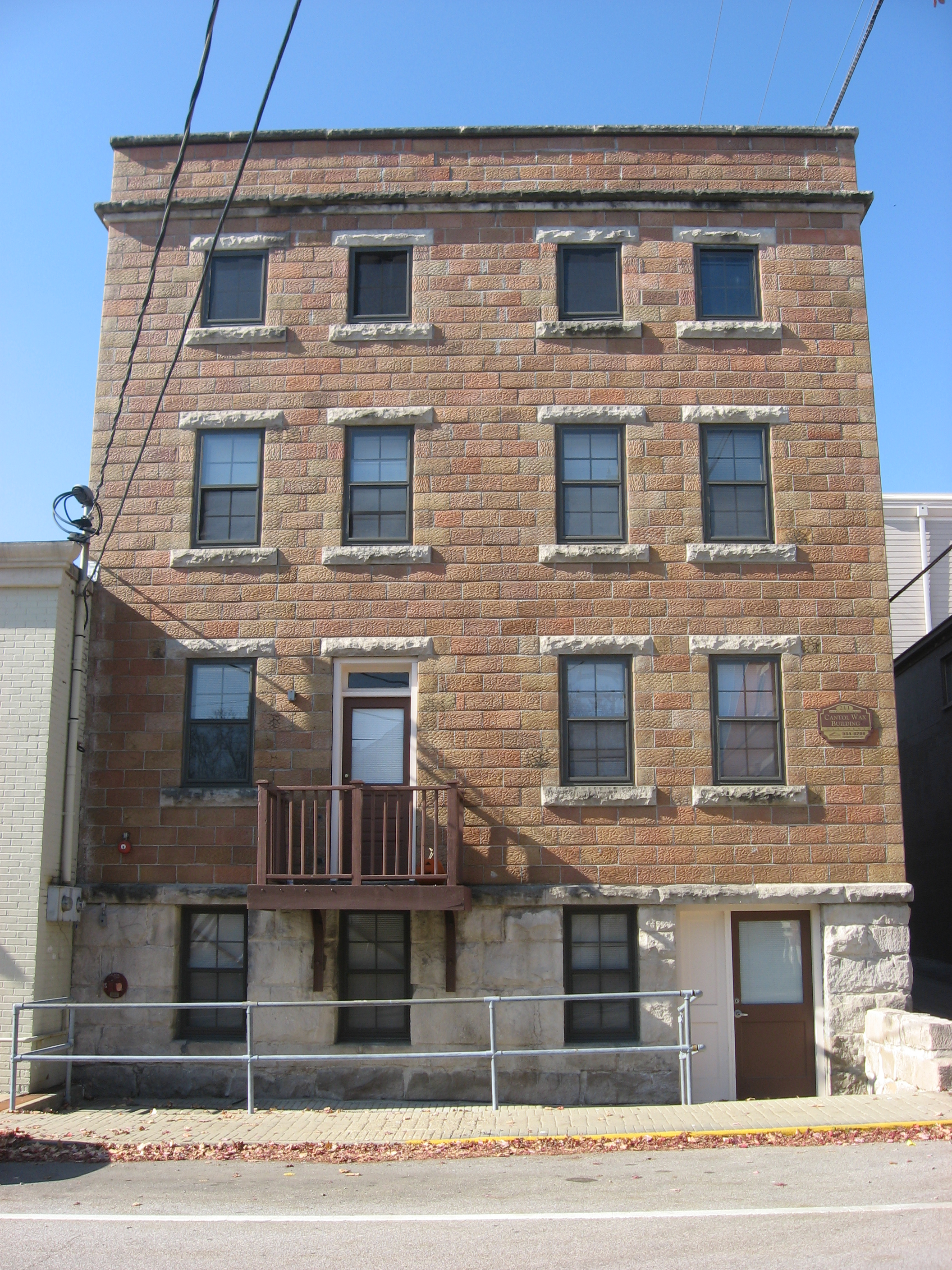 Front of the Cantol Wax Company Building, located at 211 N. Washington Street in downtown Bloomington, Indiana, United States. Built in 1920 and since converted into apartments, it is listed on the National Register of Historic Places.